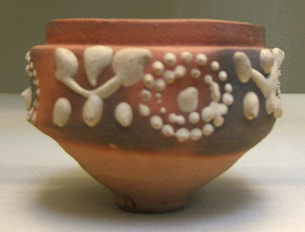 Small cup, made at Aswan, Egypt; decorated in barbotine (slip-trailing). 1st-2nd century AD. Ht.6.5 cm. British Museum, London. Greek & Roman, 1994.4-11.2